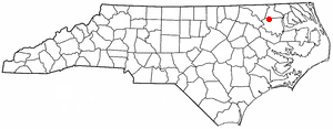 Category:North Carolina Dot Maps